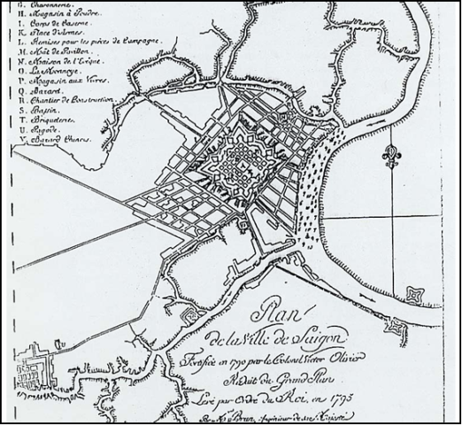 Citadel of Saigon 1795